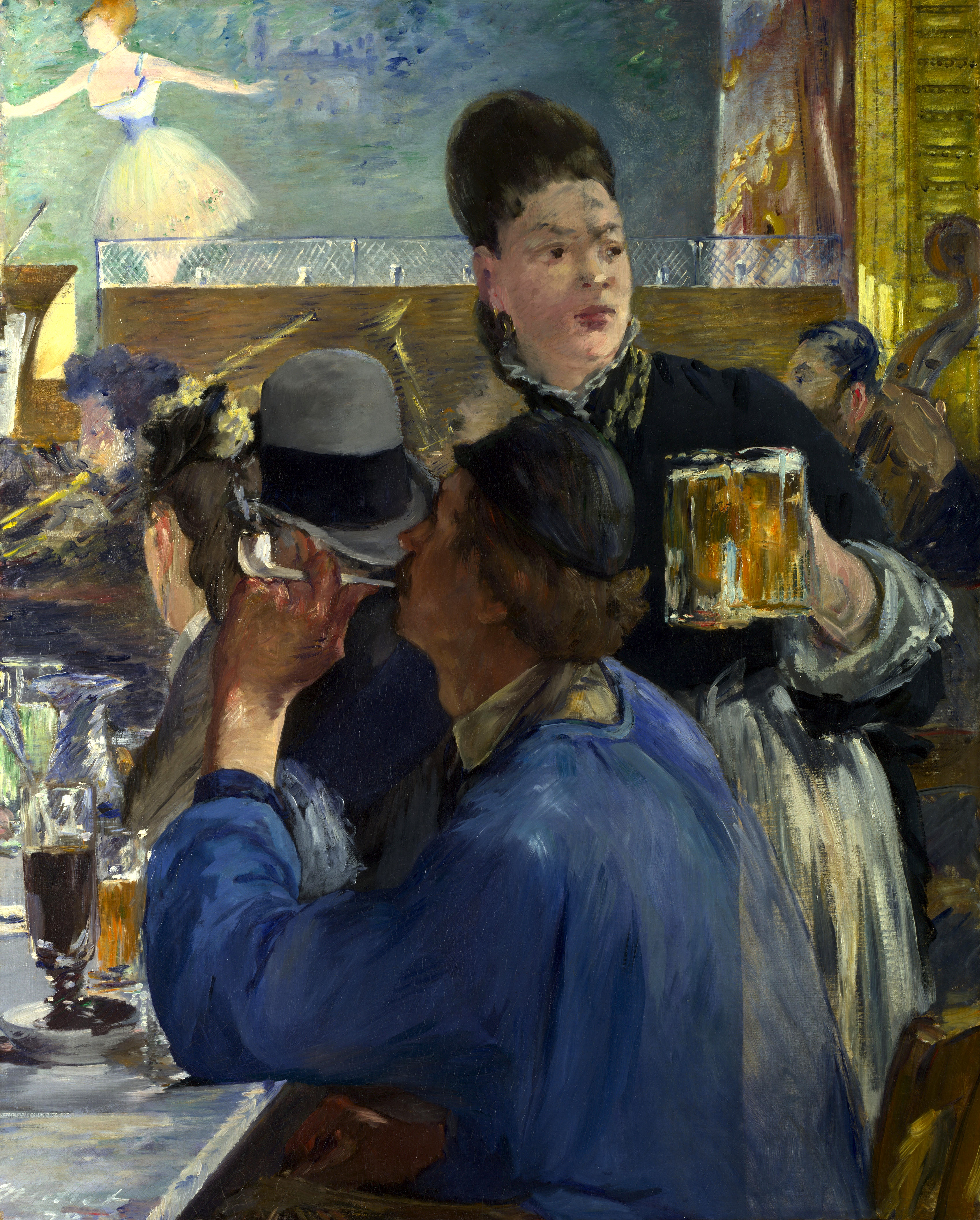 This work was originally the right half of a painting of the Brasserie de Reichshoffen, begun in about 1878 and cut in two by Manet before he completed it. This half was then enlarged on the right and a new background was added. The left half of the composition is in the Museum Oskar Reinhart, Winterthur. The Brasserie de Reichshoffen was in the Boulevard Rochechouart, Paris. At the time, brasseries with waitresses were fairly new in the city.